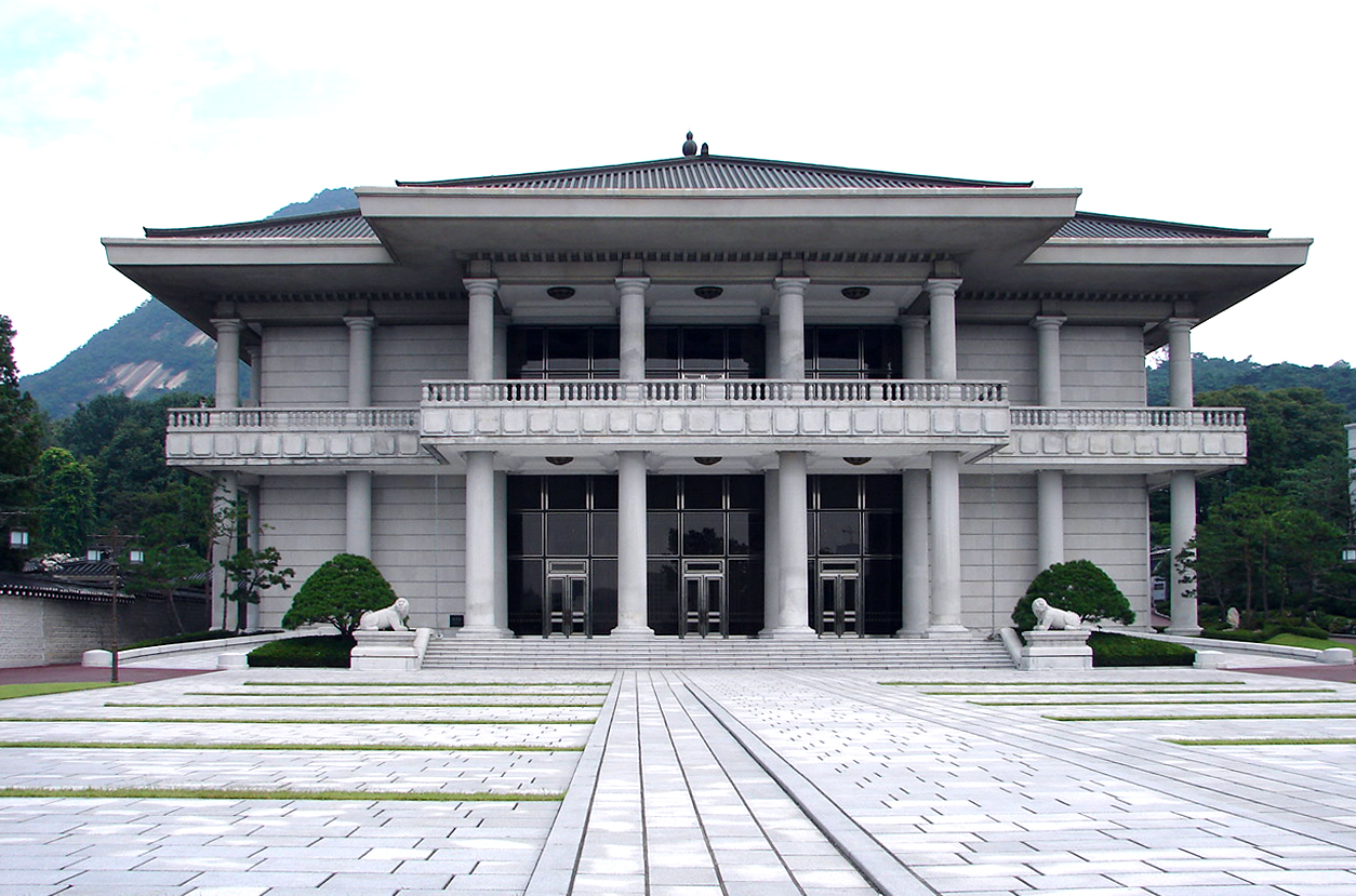 Reception Center at Cheongwadae or "Blue House", the South Korean presidential residence in Seoul South Korea.